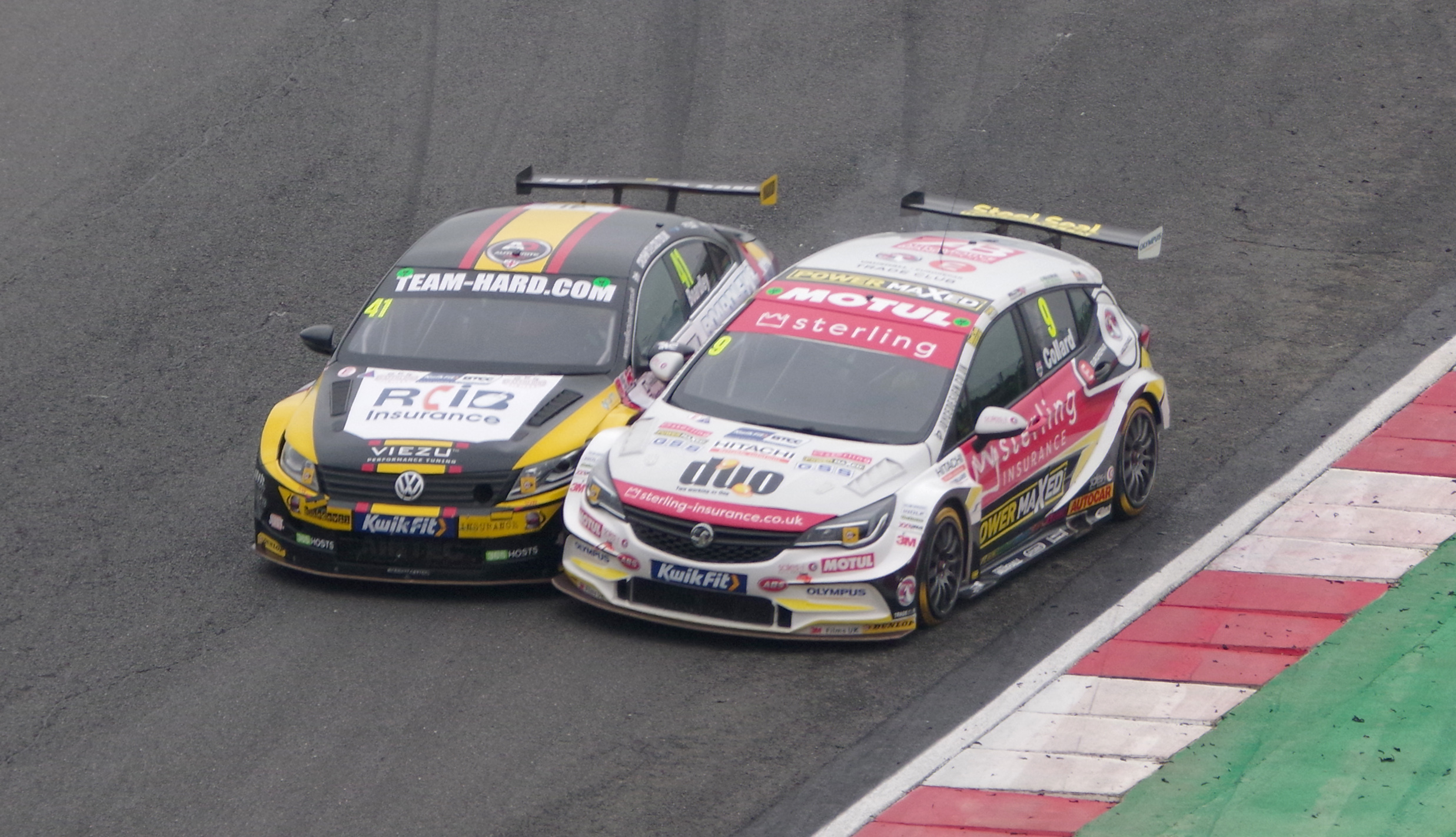 2019 British Touring Car Championship, Brands Hatch.